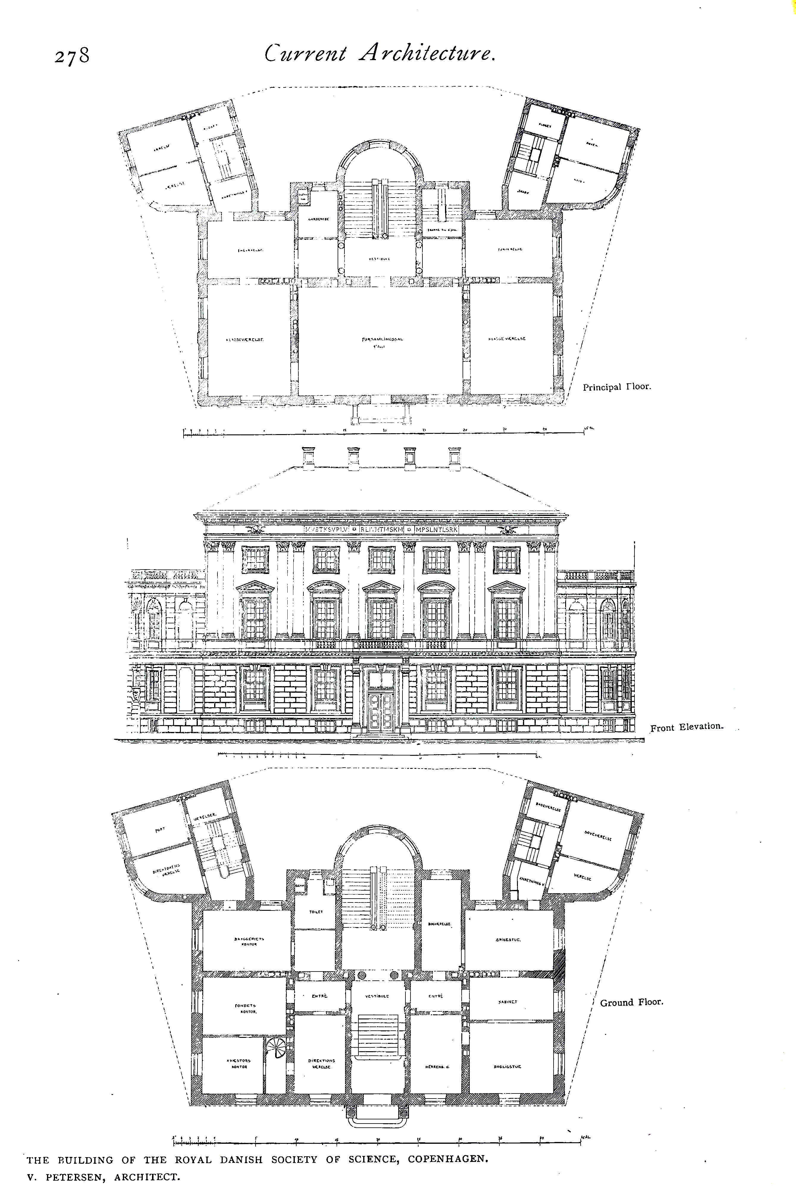 The Building of the Royal Danish Academy of Sciences, Copenhagen